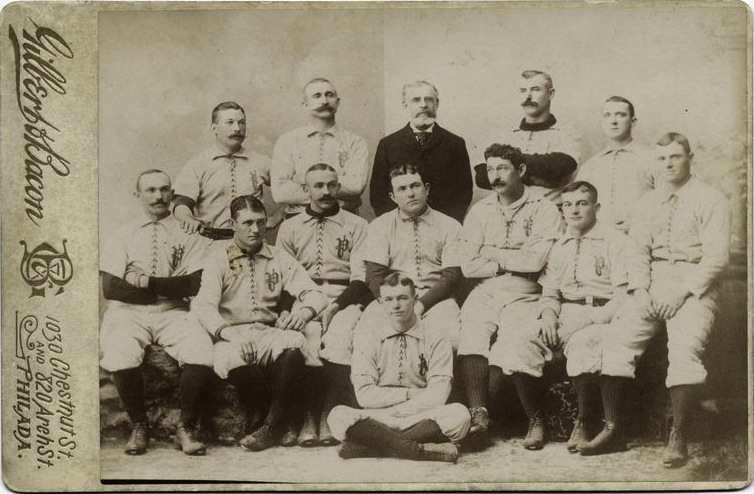 Image courtesy of the New York Public Library, The A. G. Spalding Baseball Collection. 1892 Philadelphia Phillies Baseball ClubStanding, left to right: Charlie Reilly, Sam Thompson, Harry Wright, Roger Connor, Bill HallmanSeated, left to right: Bob Allen, Ed Delahanty, Gus Weyhing, Jack Clements, Tim Keefe, Lave Cross, Billy HamiltonOn floor: Kid Carsey